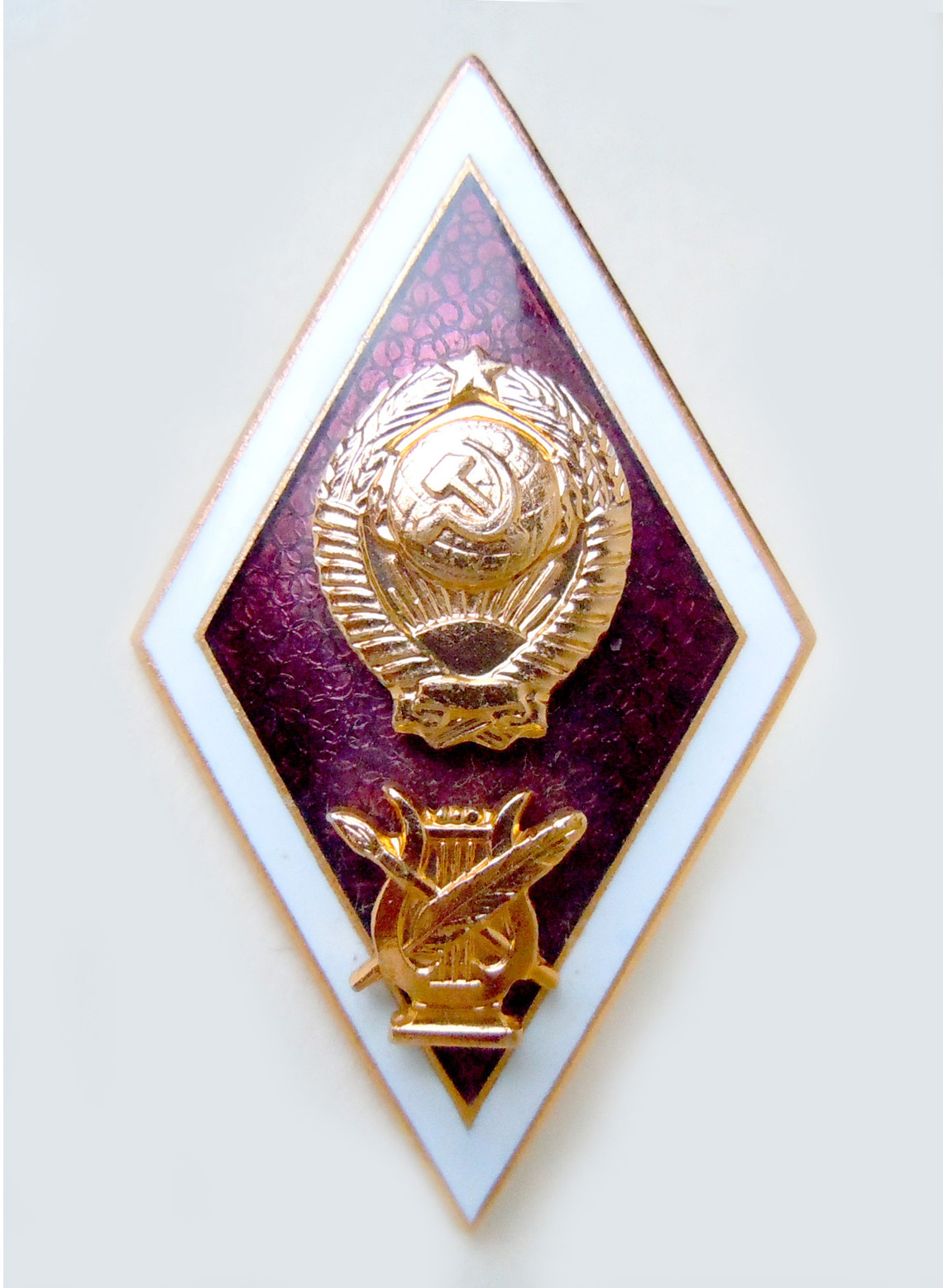 Graduates badge for individuals received education including the high school diploma of the Soviet Union´s "High School of Culture".